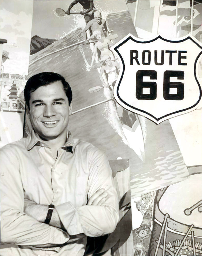 Publicity photo of George Maharis from the television program Route 66.